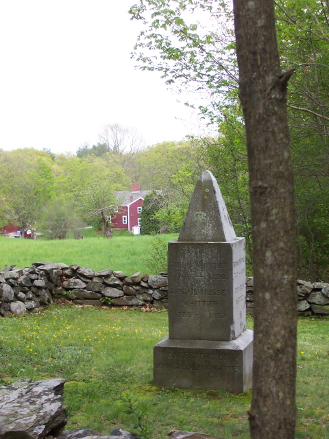 The family burial plot at the John Greenleaf Whittier house. Author: Mark Hall